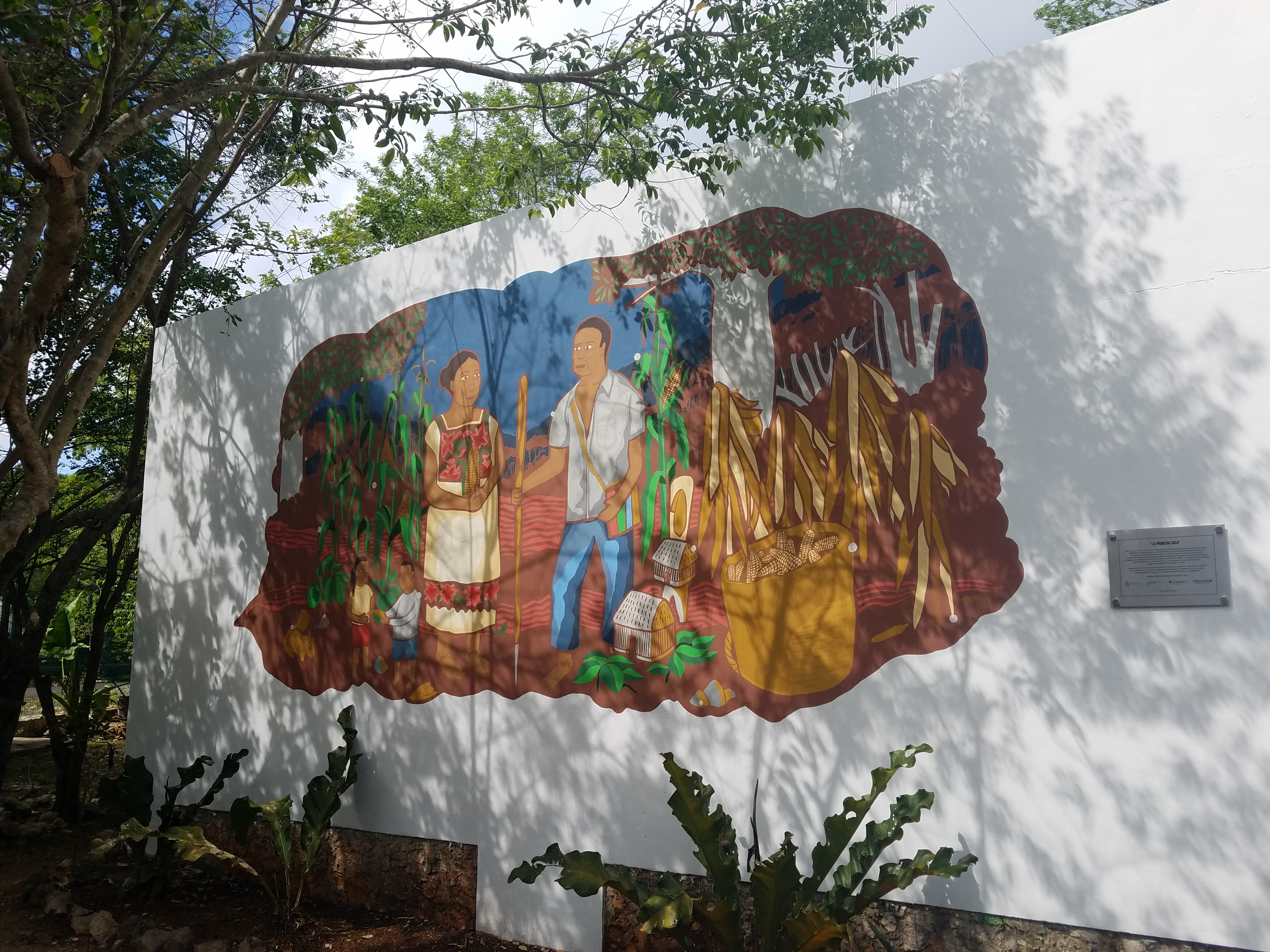 A mural on the community center in Yaxcabá depiciting milpa